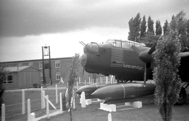 Lancaster Bomber R5868 at The Main Gate, RAF Scampton, near to Scampton, Lincolnshire, Great Britain. This Lancaster bomber stood guard at the entrance to RAF Scampton (the "Dambusters" base).